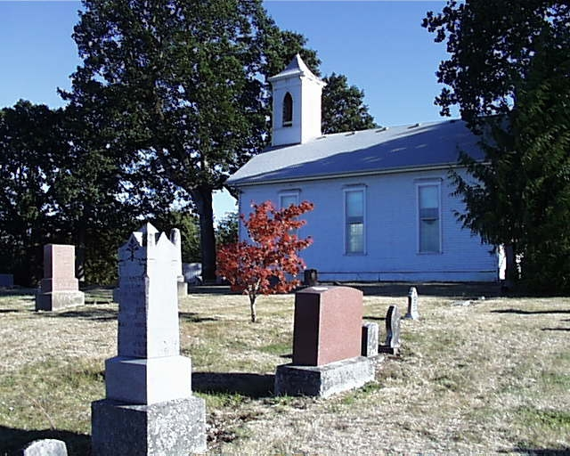 Spring Valley Presbyterian Church and graveyard in Zena, Polk County, Oregon, USA. On the National Register of Historic Places.